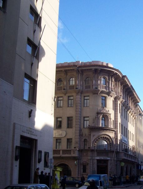 Buildings: Bolsa de Comercio (left), Edificio Posadas Belgrano (right) Location: Ciudad Vieja, Montevideo, Uruguay